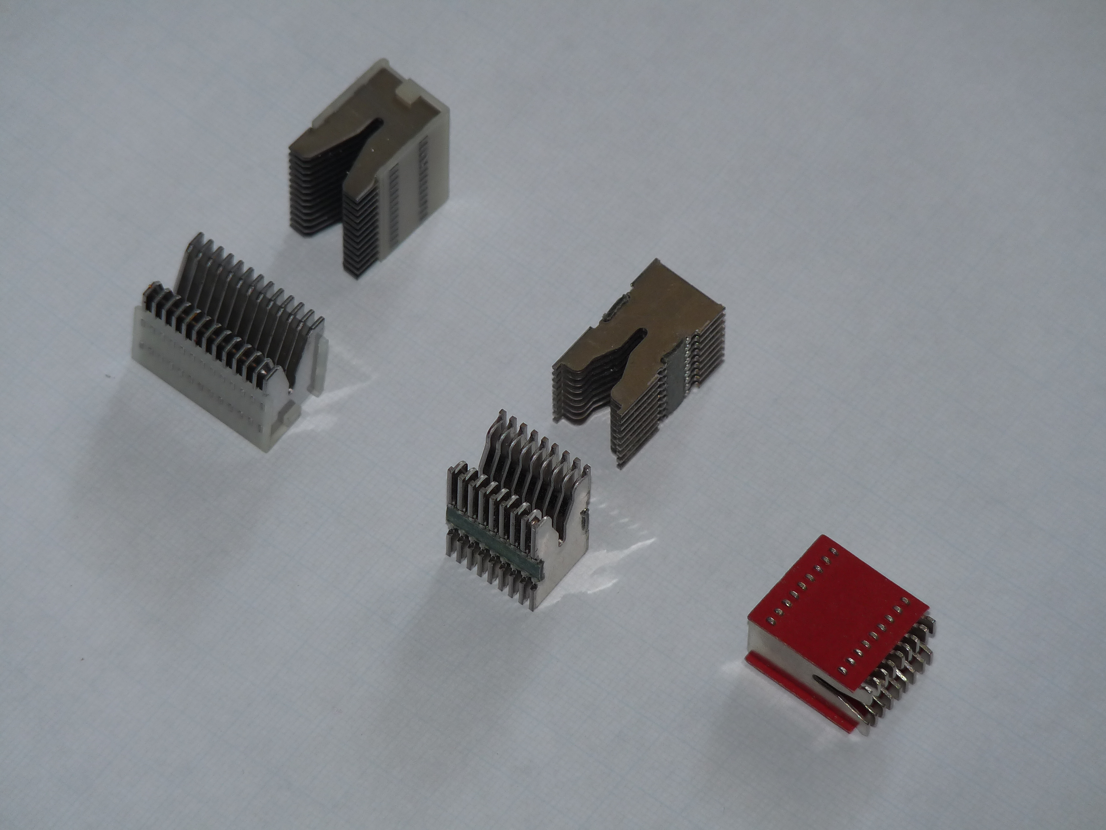 Arc chamber from miniature circuit breaker